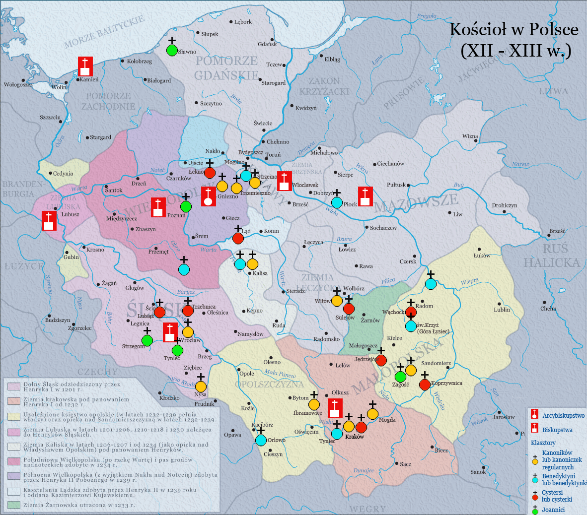 Church in Poland (12– 13 c.)